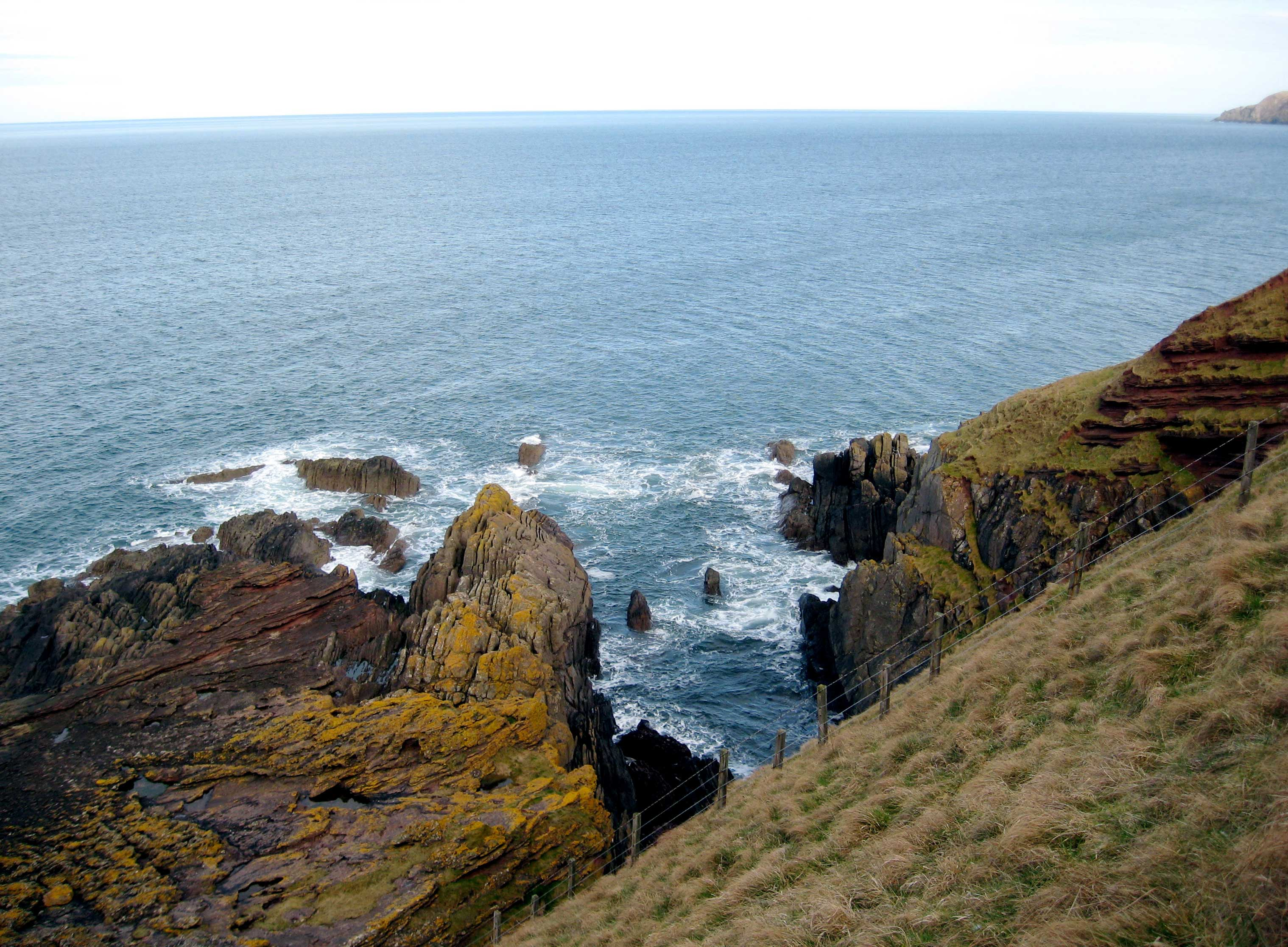 Siccar Point, looking down grass slope to rock formations